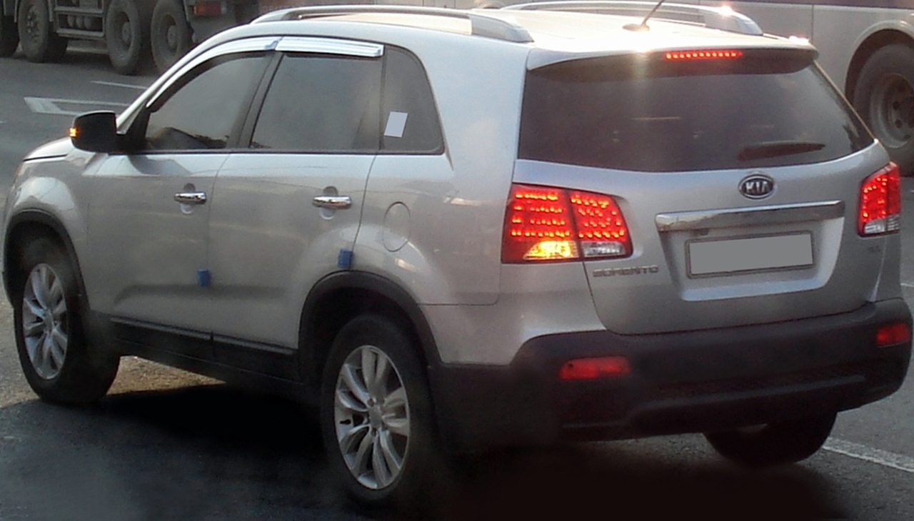 Kia Sorento R